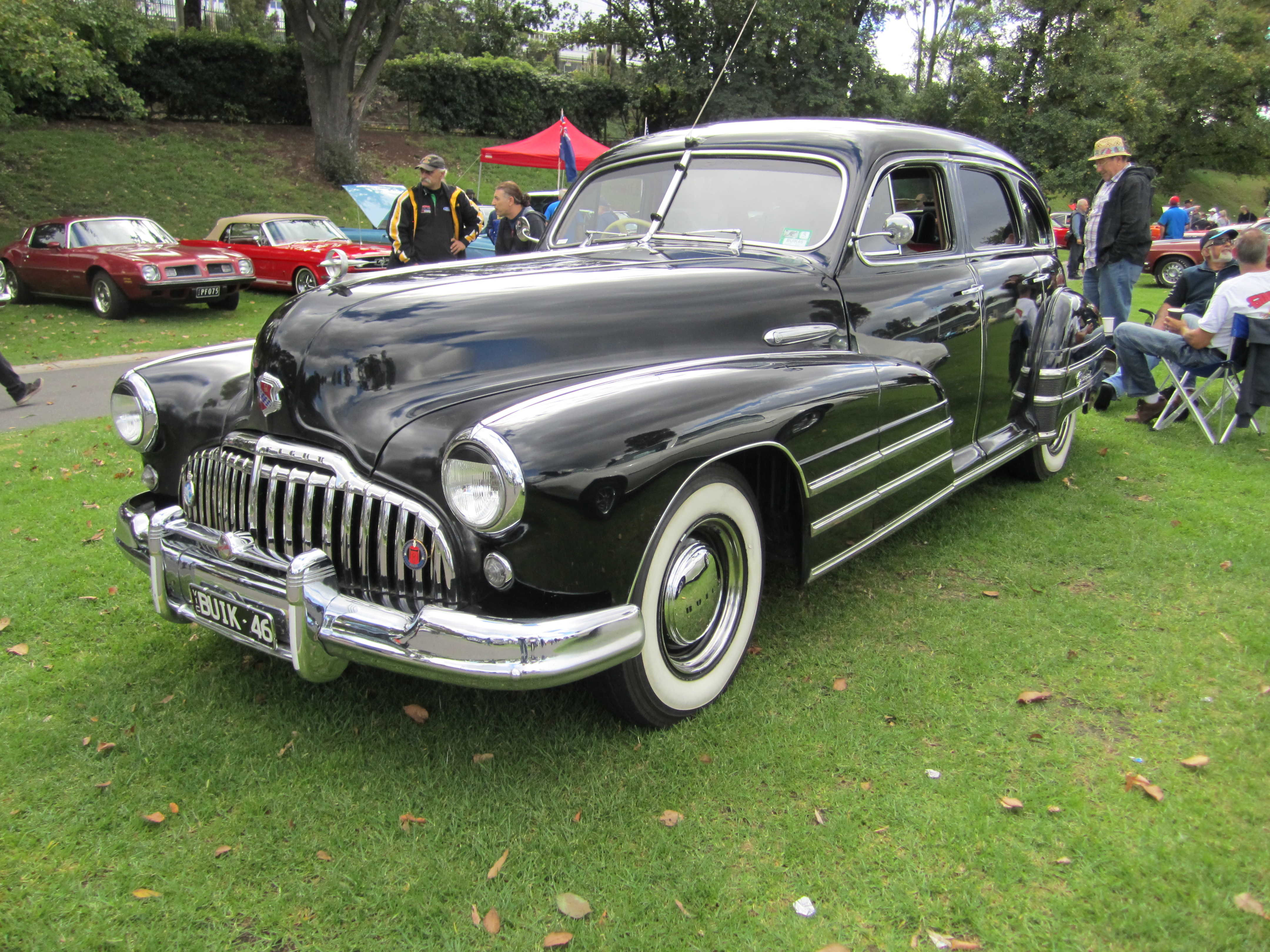 Series 40 Special; Basic SWB. Available in Sedan, Coupe & Roadster Engine 248 cu in V8